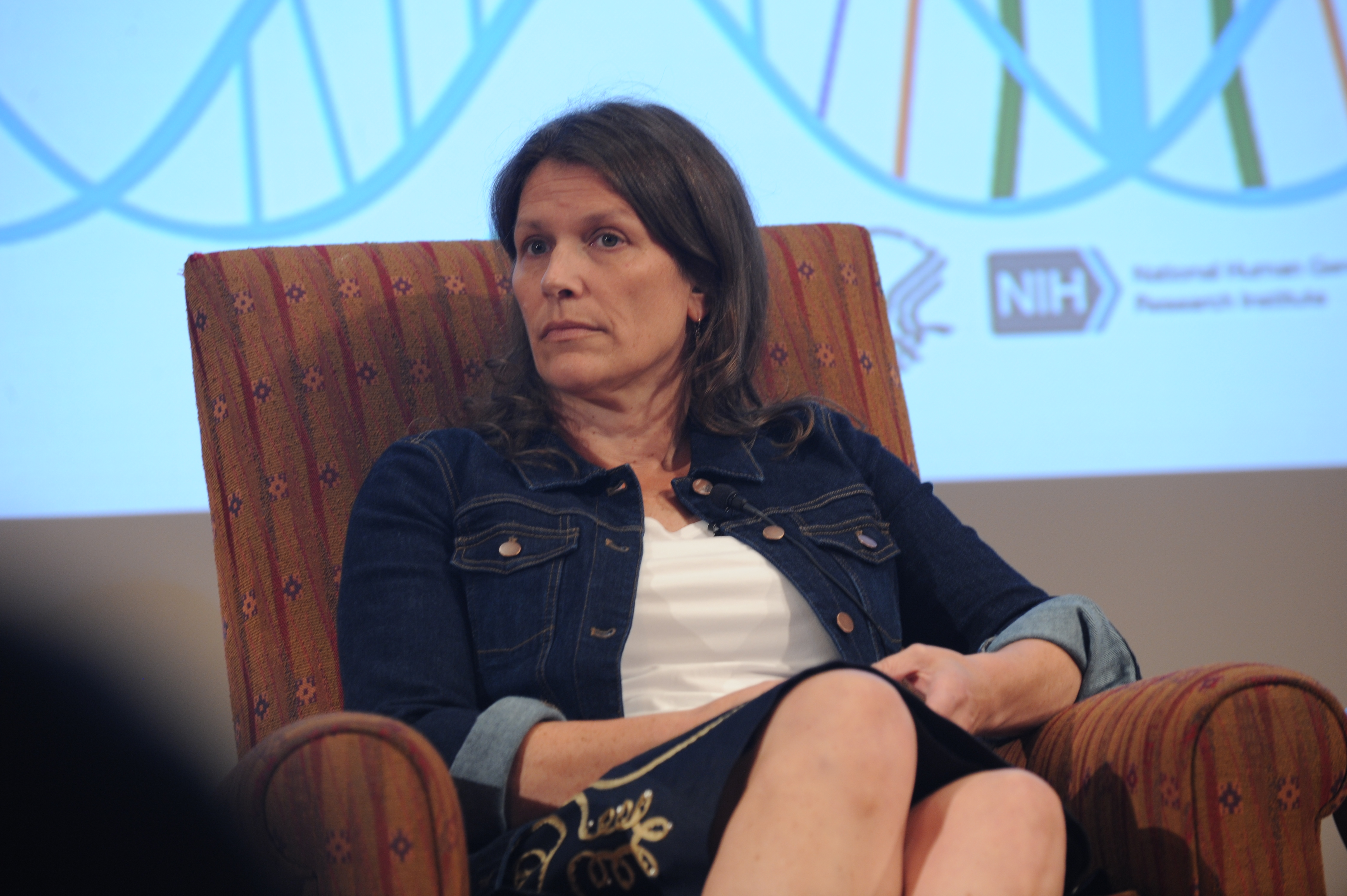 Washington Post's Carolyn Hax participates in the evening program, A Conversation with Carolyn Hax: Ask Me About Health, Genetics, and Dealing with Diesease at the Genome: Unlocking Life's Code Closing Symposium. Baird Auditorium National Museum of Natural History Smithsonian Institution Washington, D.C.